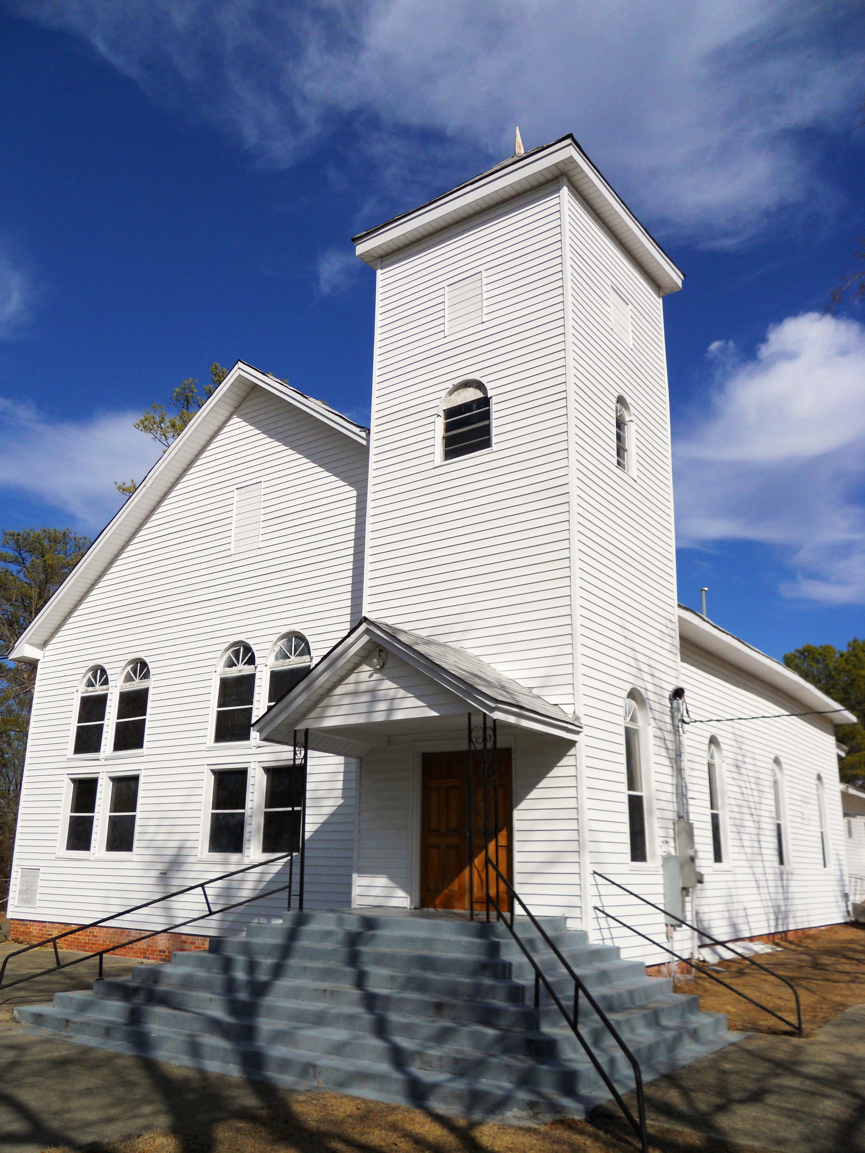 This is a photograph of the Shiloh Missionary Baptist Church in Notasulga, Alabama.